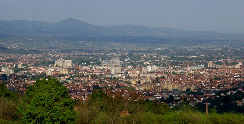 Panoramic view of Cacak, Serbia